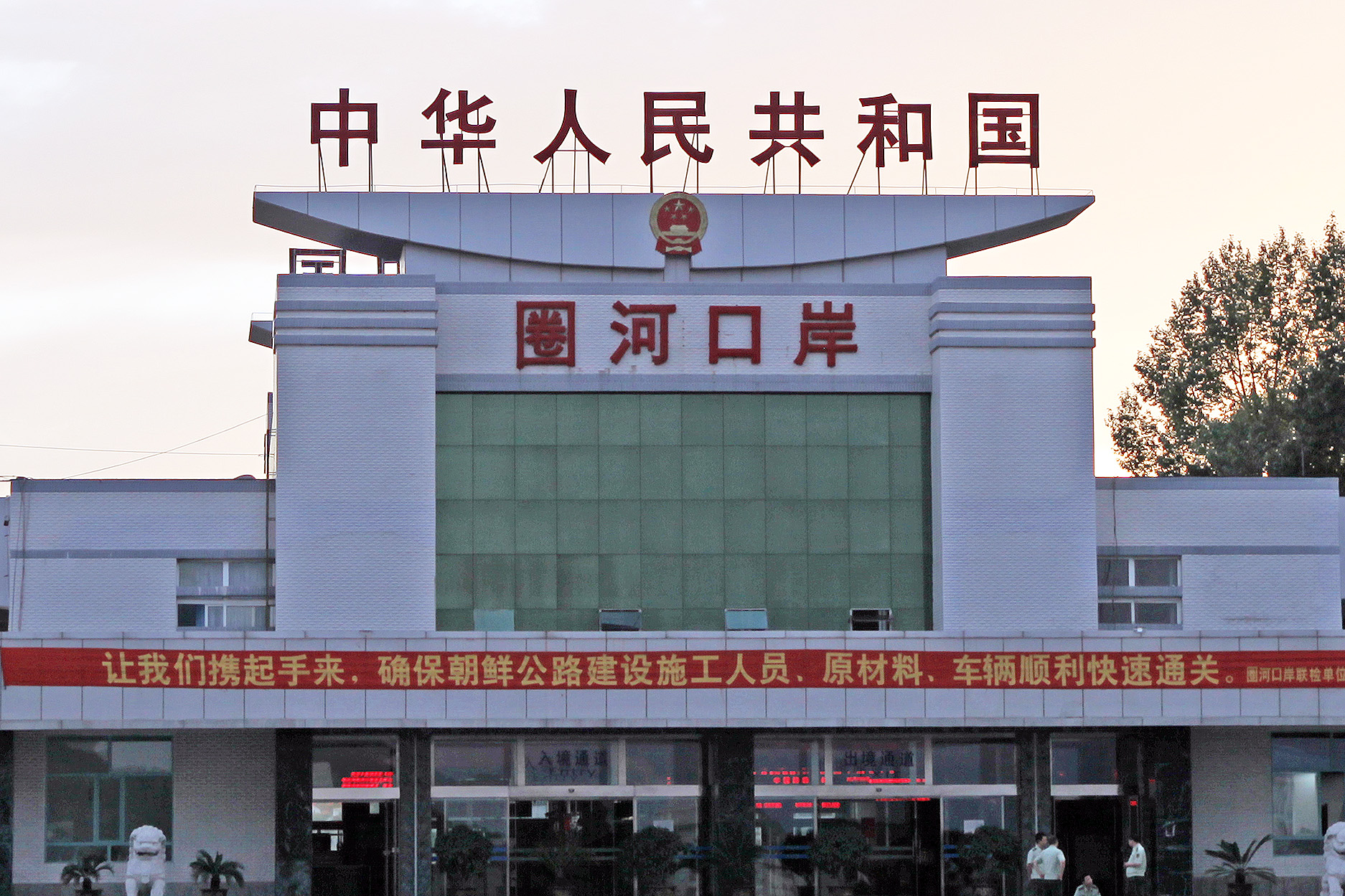 You can access Rajin Sonbong District via this border point. There are not so many pictures of this border building. The officer asked me 3 times why I want to enter North Korea and what is purpose of my travel. Westerner tourists are not usual in this region.